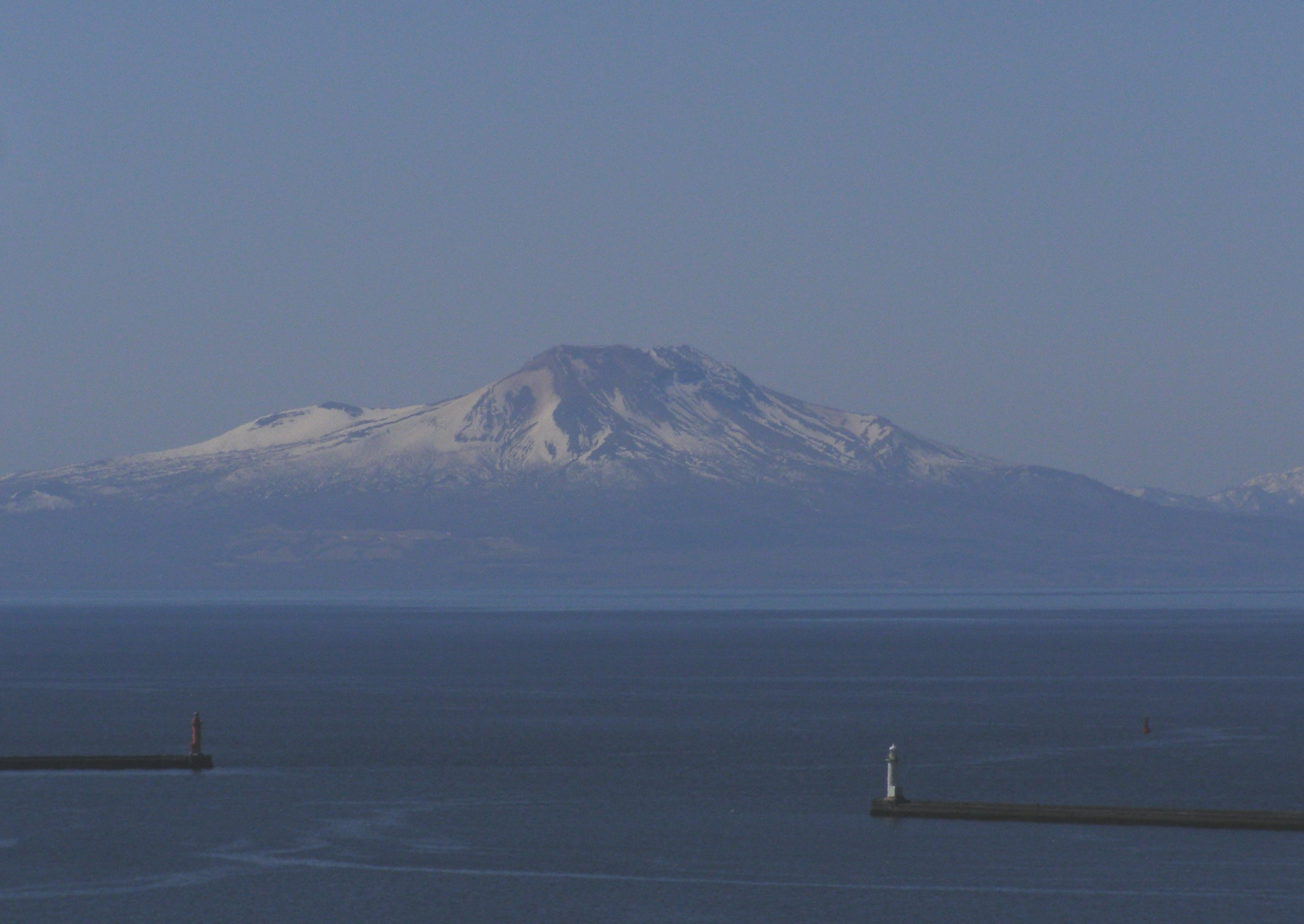 Mt.Komagatake(Hokkaido,Japan)